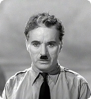 Charlie Chaplin from the end of film The Great Dictator (1940).